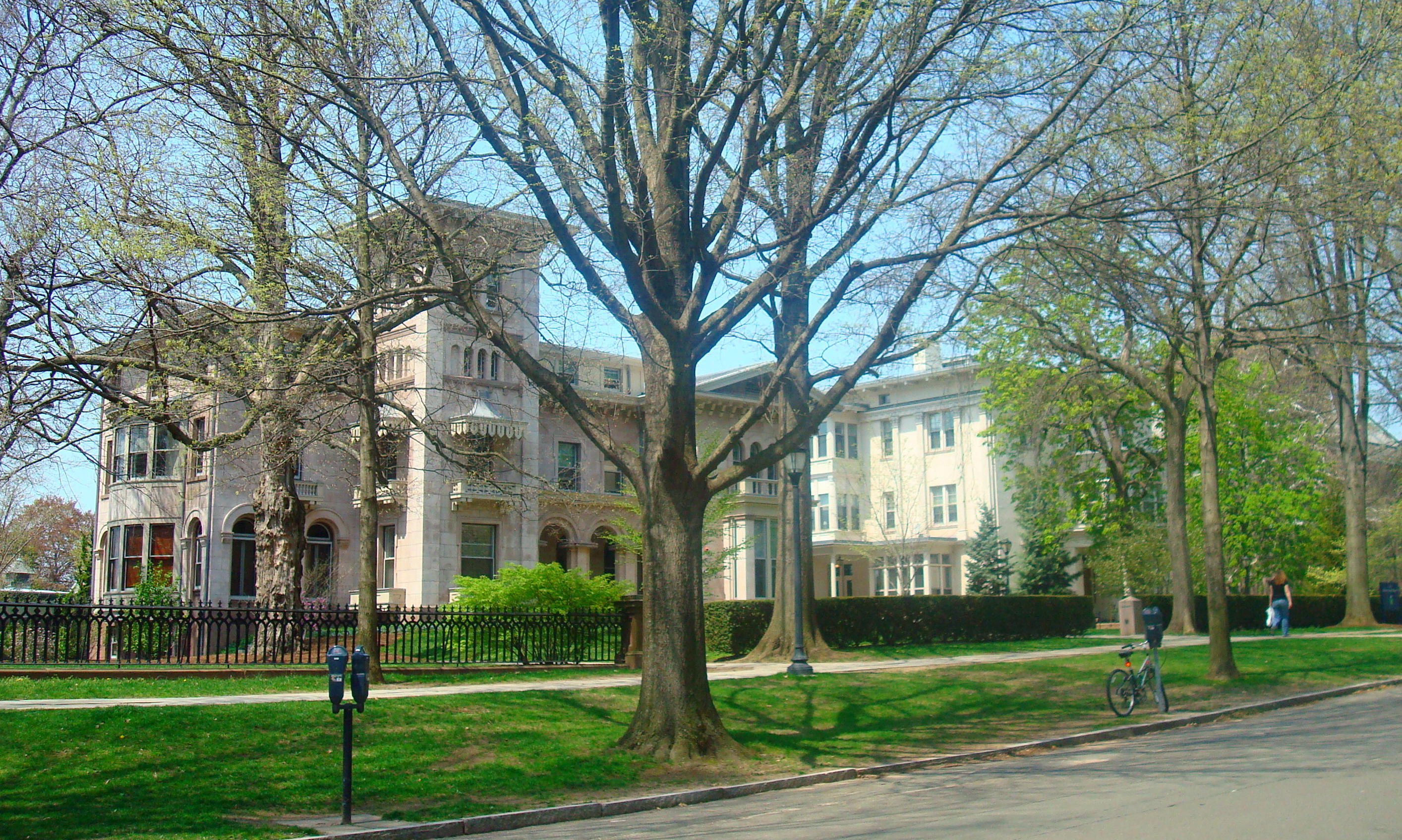 Steinbach and Evans Halls of the Yale School of Management.